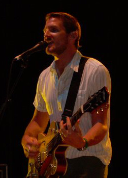 Adam Gardner in concert.